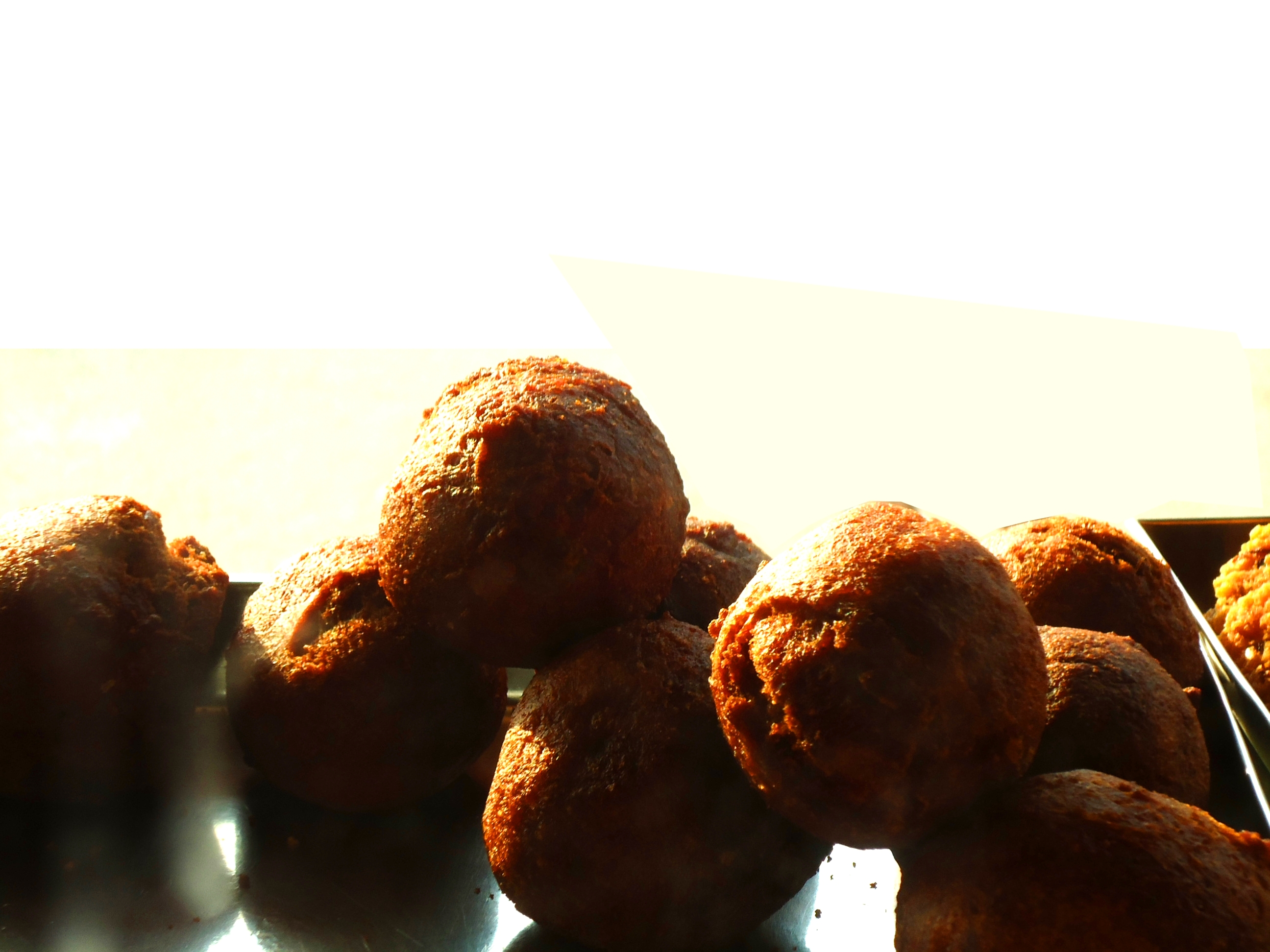 Bonda in Kerala teashop